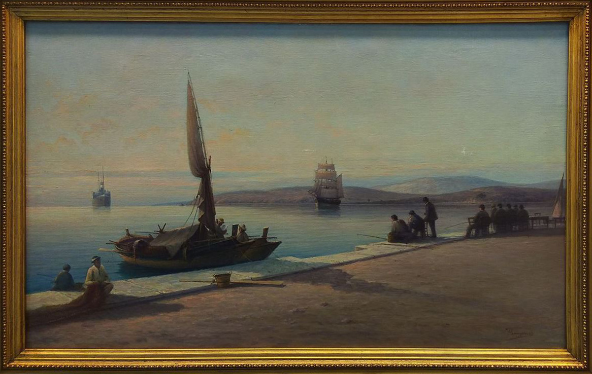 Port of Volos. Oil on canvas, 49 cm x 79 cm. Municipal Art Gallery of Larisa (Greece). G.I. Katsigras Museum.